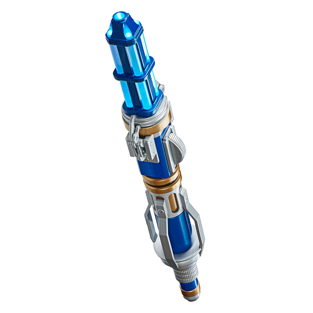 The Twelfth Doctor's sonic screwdriver